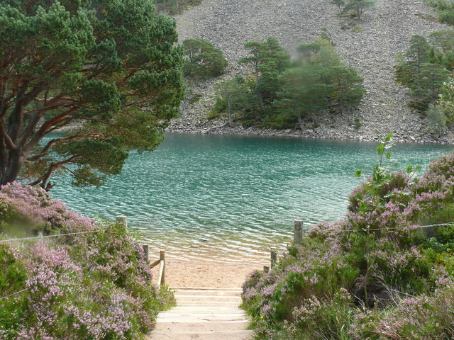 Lochan Uaine The green loch is a short, 30 minute, walk uphill from Glenmore Lodge.